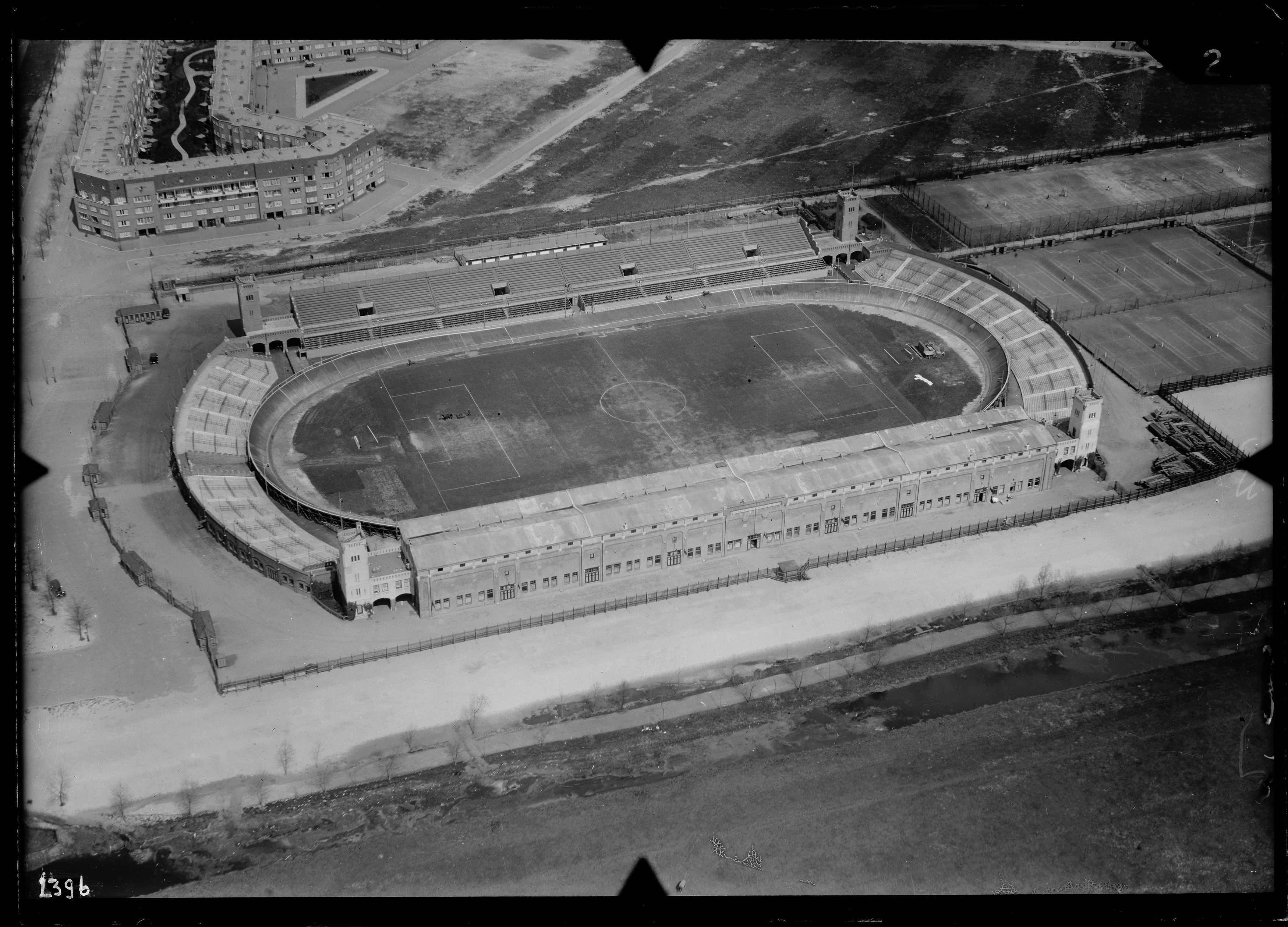 Aerial photograph of Amsterdam, The Netherlands. Het Stadion or Het Nederlandsch Sportpark, predecessor of the Olympisch Stadion. Demolished in 1929.